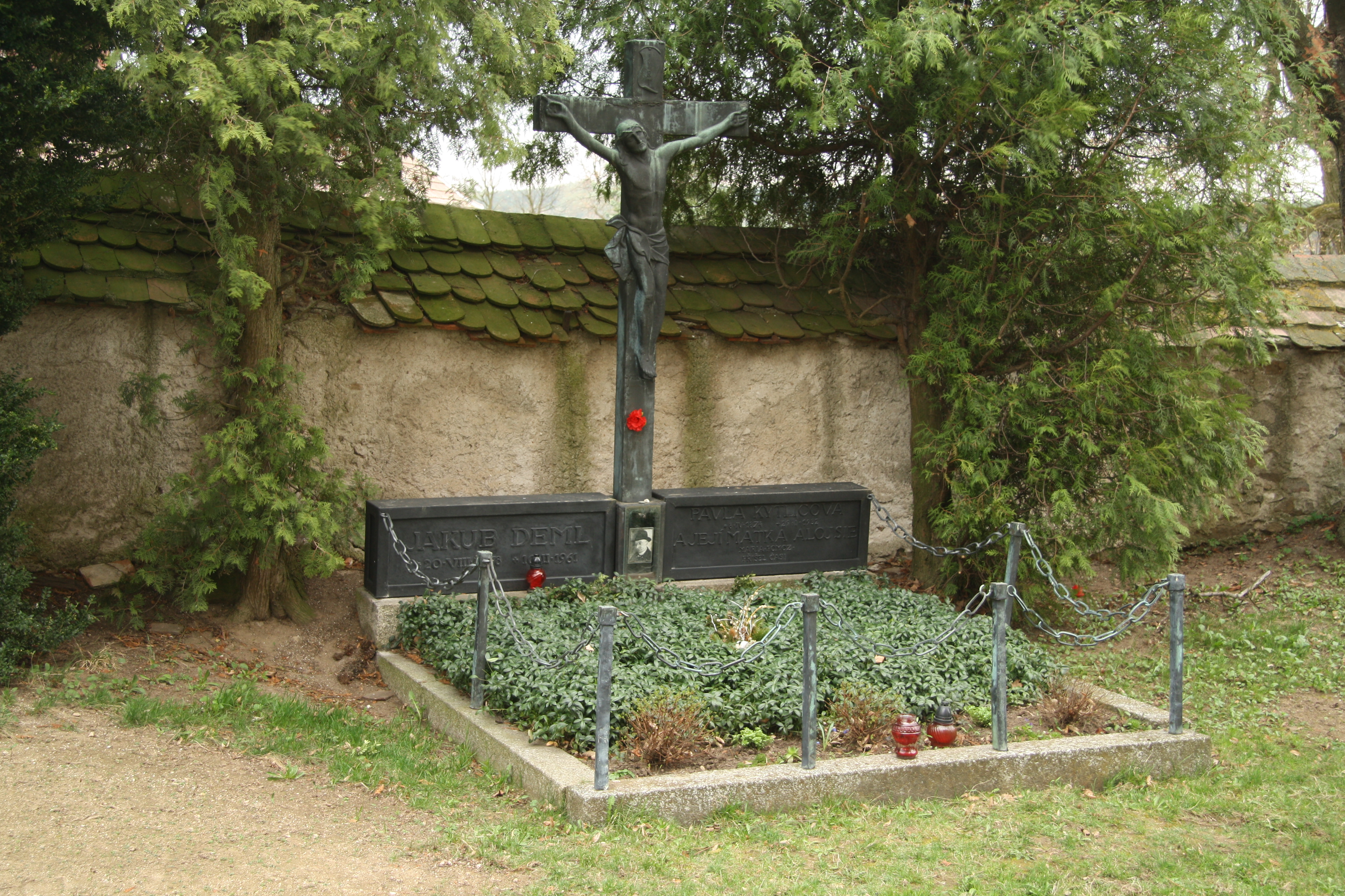 Grave of Jakub Deml and Pavla Kytlicová in Tasov, Žďár nad Sázavou District.